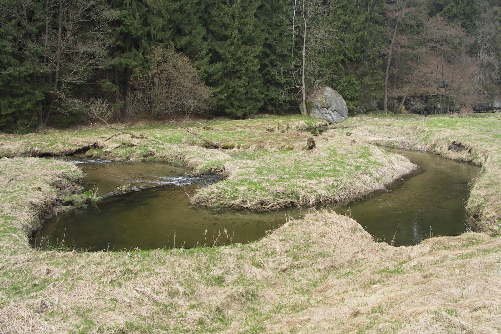 The Kirnitzsch near Brtníky Bridge, between Kyjov and former village of Zadní Doubice